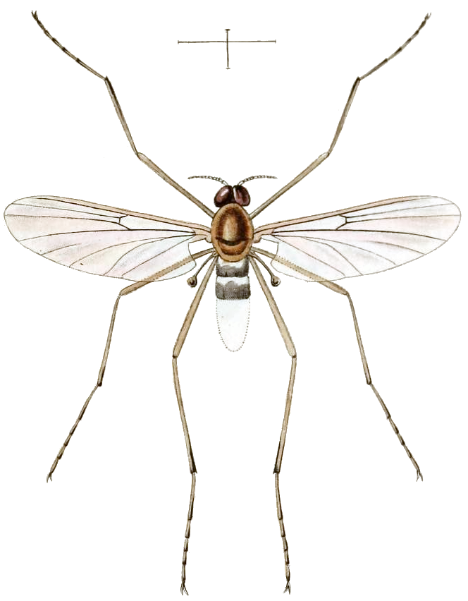 Imago of Blepharicera fasciata (Westwood 1842) originally described as Asthenia fasciata Westwood 1842. Note: size is given in latin, wing-width 6 1/2-something (“expans. alarum lin. 6 1/2 (mens. angl.)”)